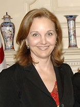 Executive Director Josette Sheeran of the World Food Programme.